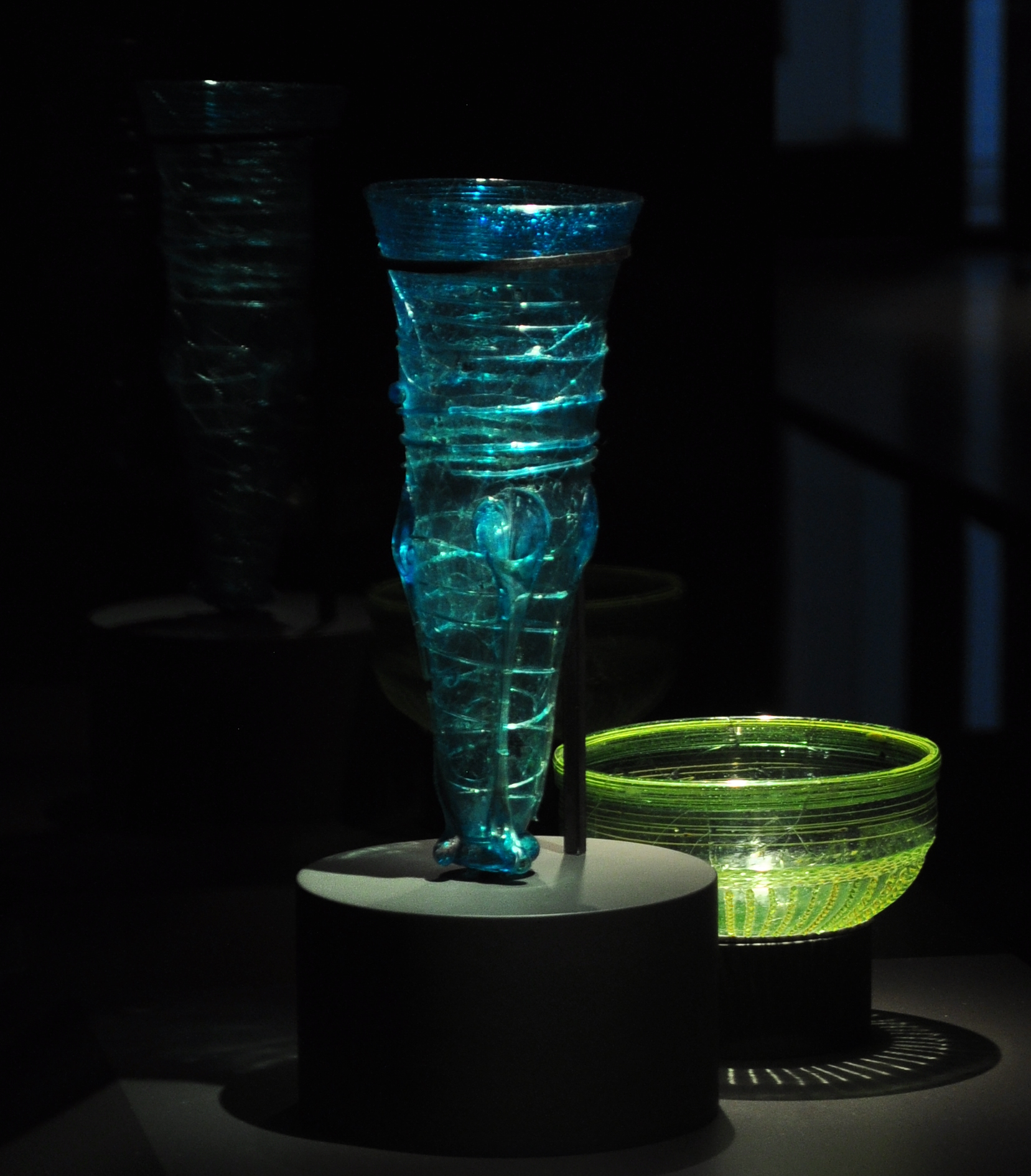 Glass beaker and glass bowl from Valsgärde boat grave 6, 7th century, "The Vikings Begin" exhibit, Nordic Museum, Seattle, Washington, U.S. The pieces are believed to come originally from northern Italy.